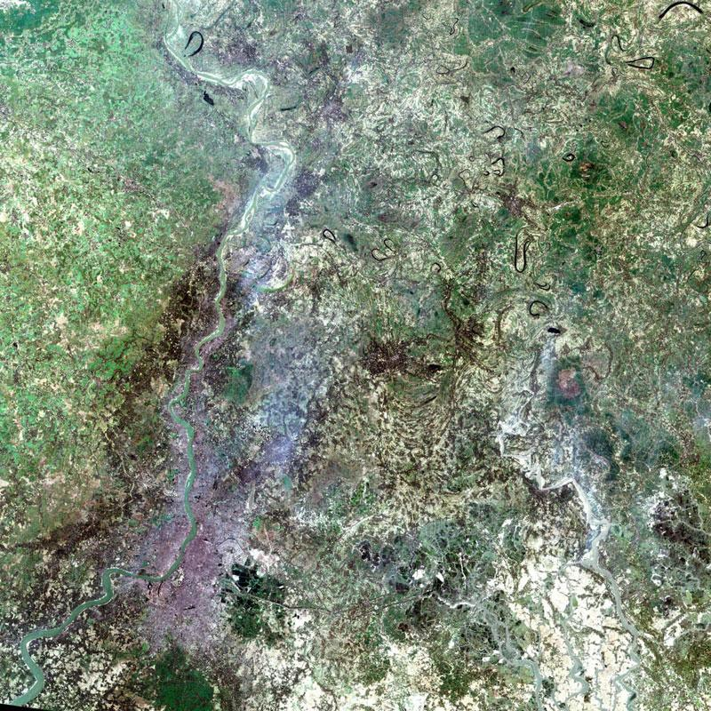 A simulated-color satellite image of Kolkata taken on NASA's Landsat 7 satellite